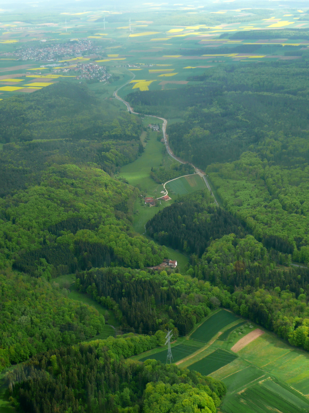 Aerial view of Buchental valley. Forest areas belong to Steinfeld (Lower Franconia), Germany. Horizon shows Hausen and Steinfeld.